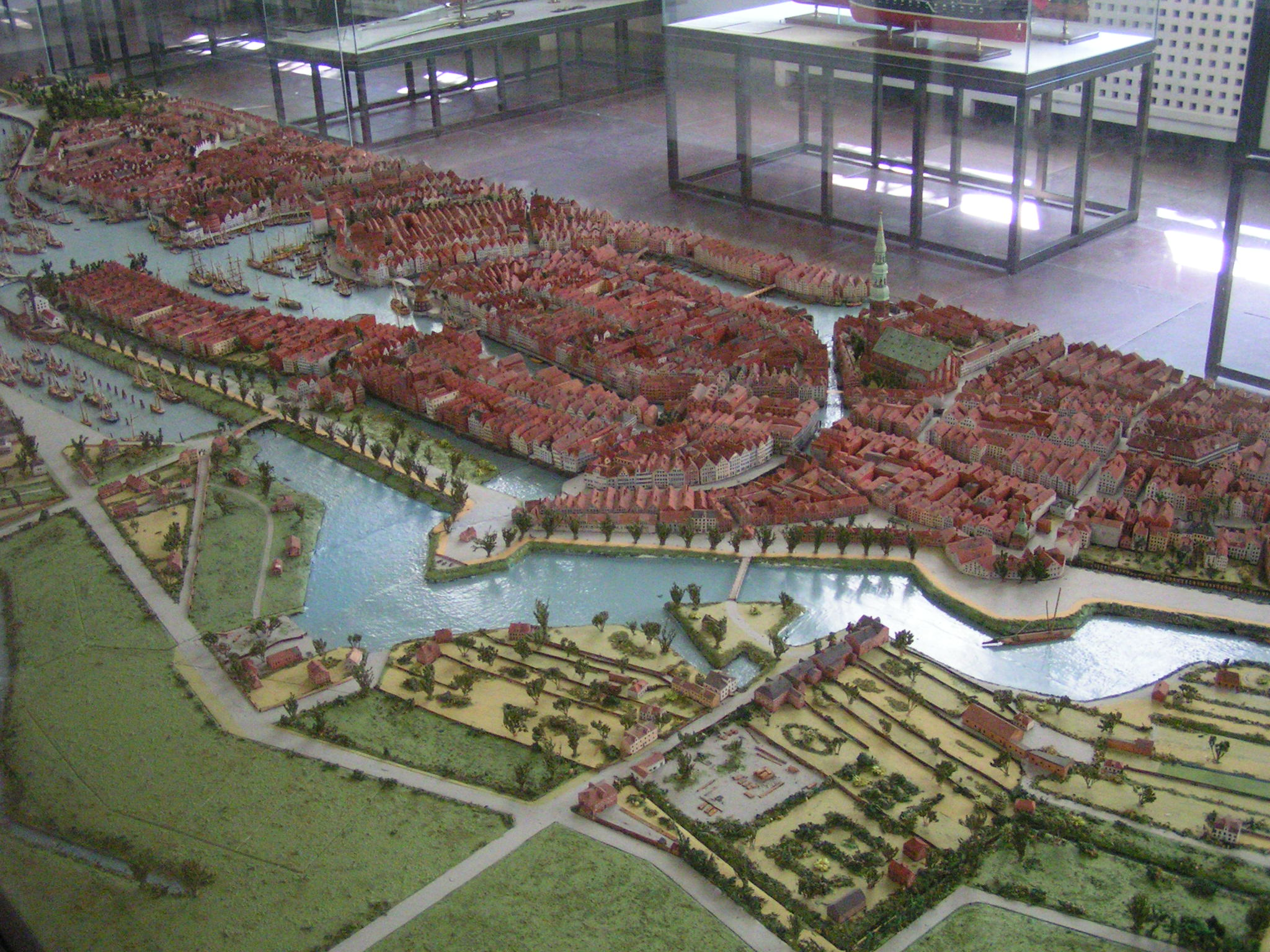 Model of historical Hamburg around 1800, on display at Museum für Hamburgische Geschichte, Hamburg, Germany.